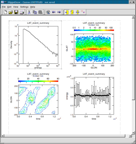 HippoDraw canvas window